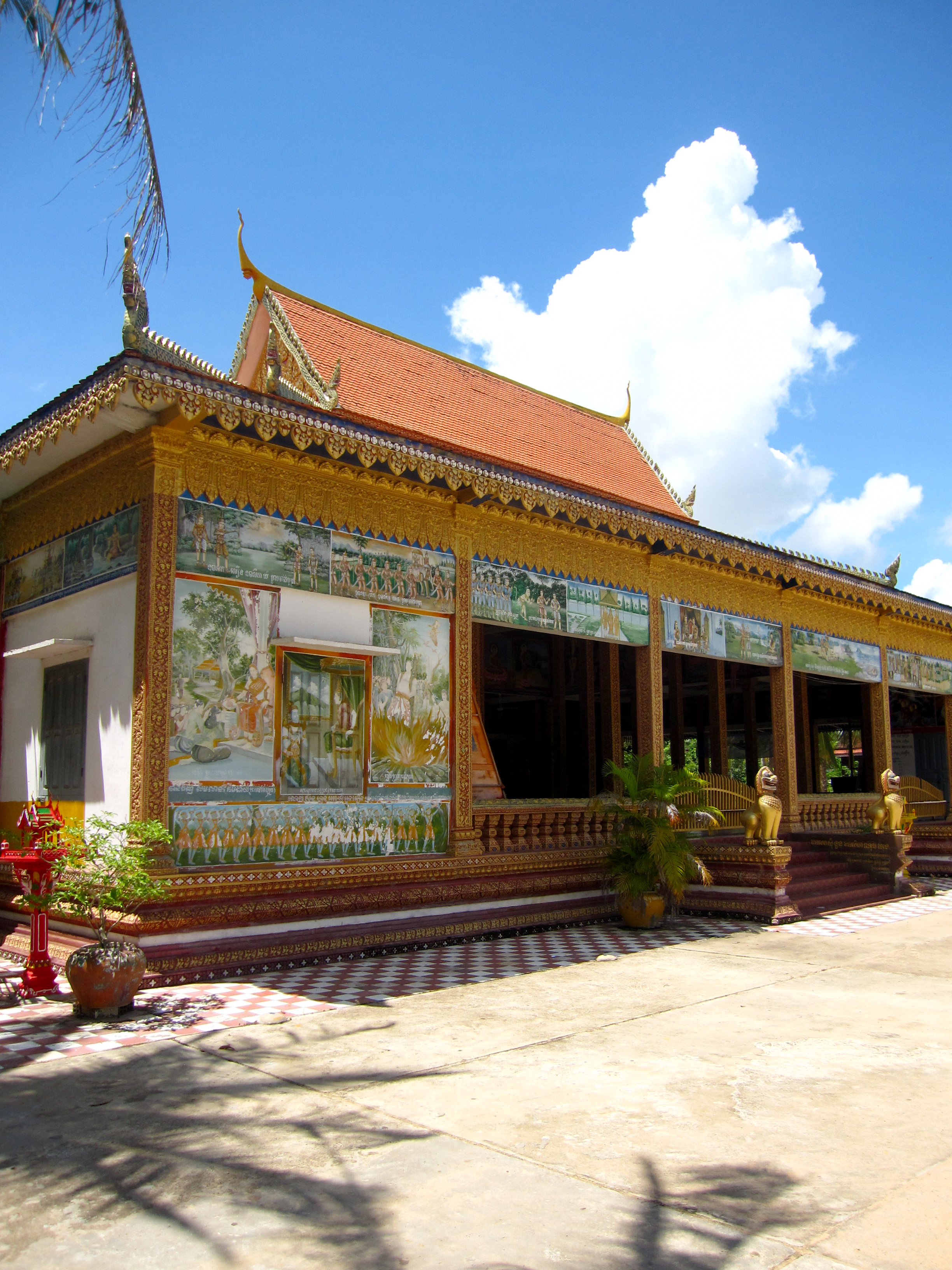 Puok Temple (Cambodia) in September 2010.